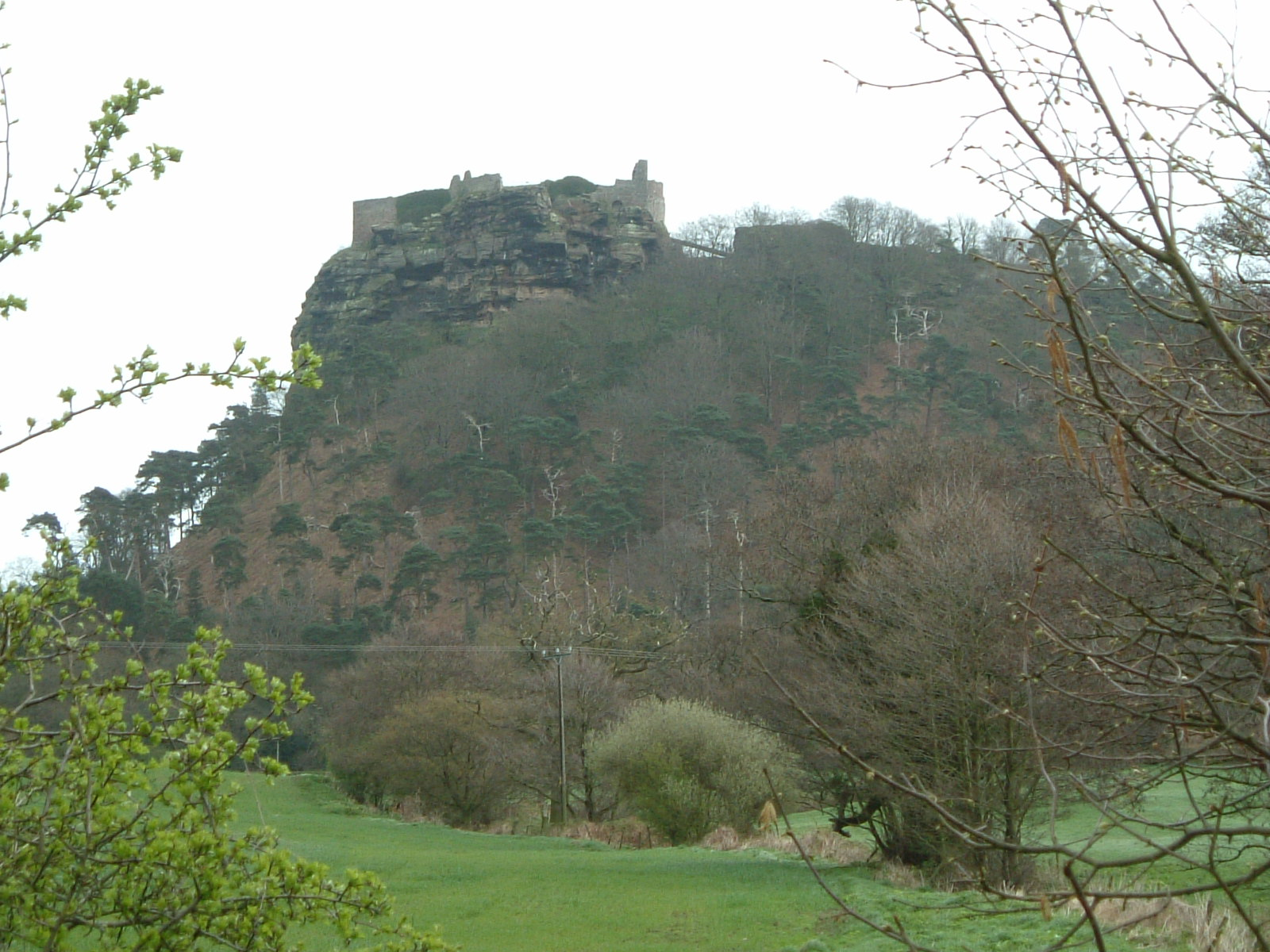 thumbnail|right|Beeston Castle - located on a rocky summit 500ft above the Cheshire plain.